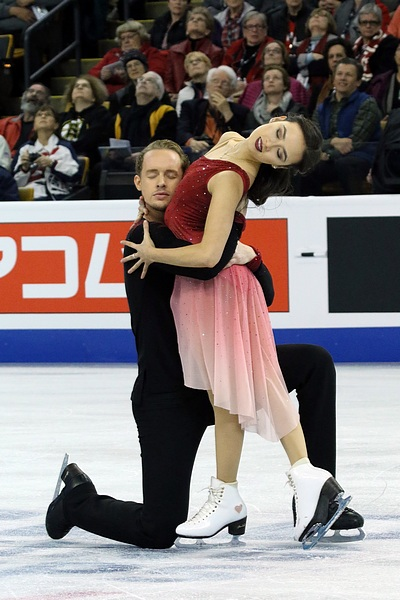 Madison Chock and Evan Bates at the 2016 World Championships